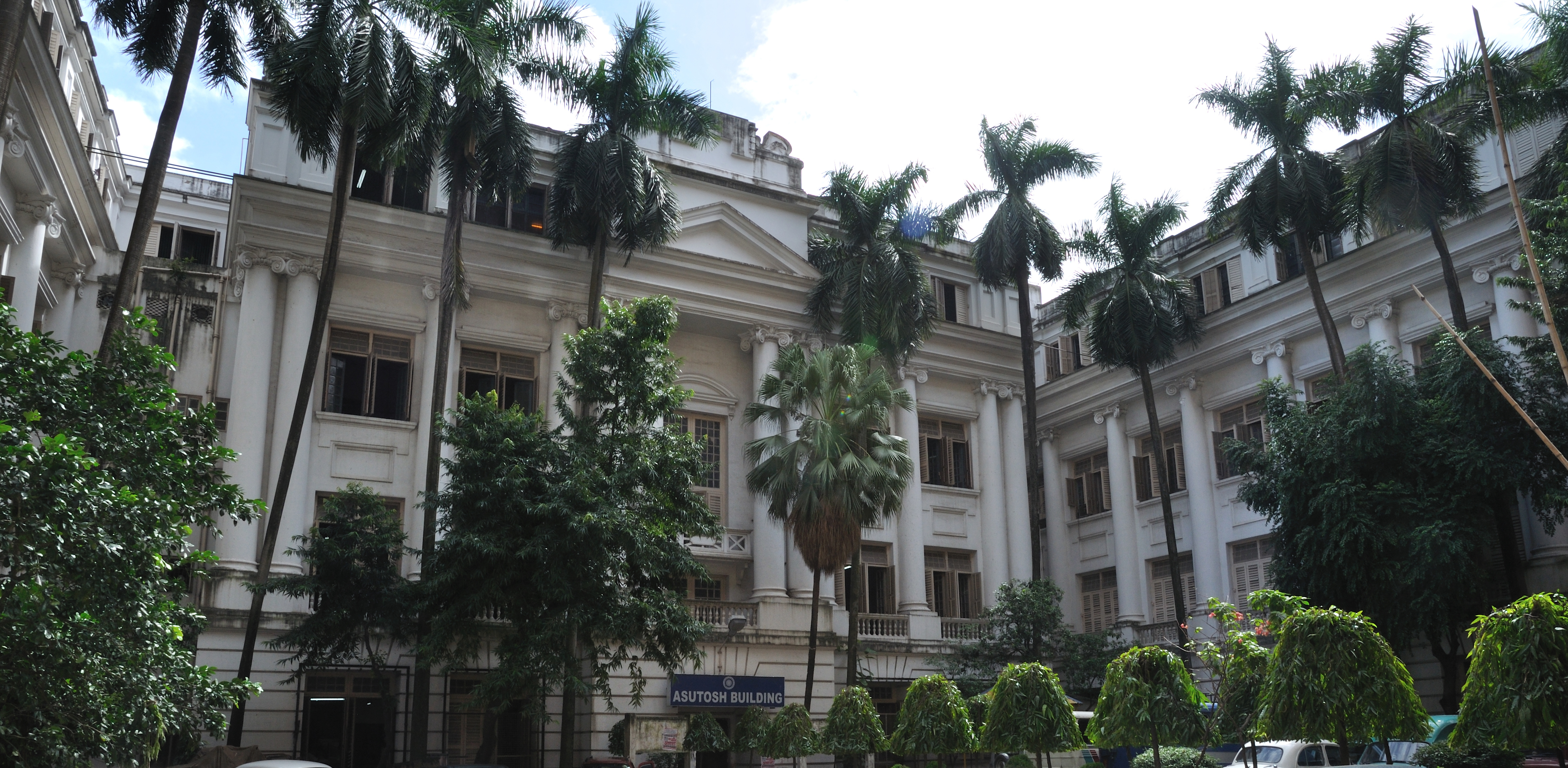 Asutosh Building of University of Calcutta, situated on College Street, Kolkata.